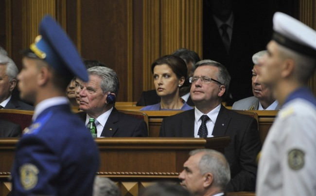 Petro Poroshenko presidential inauguration, 7th June 2014